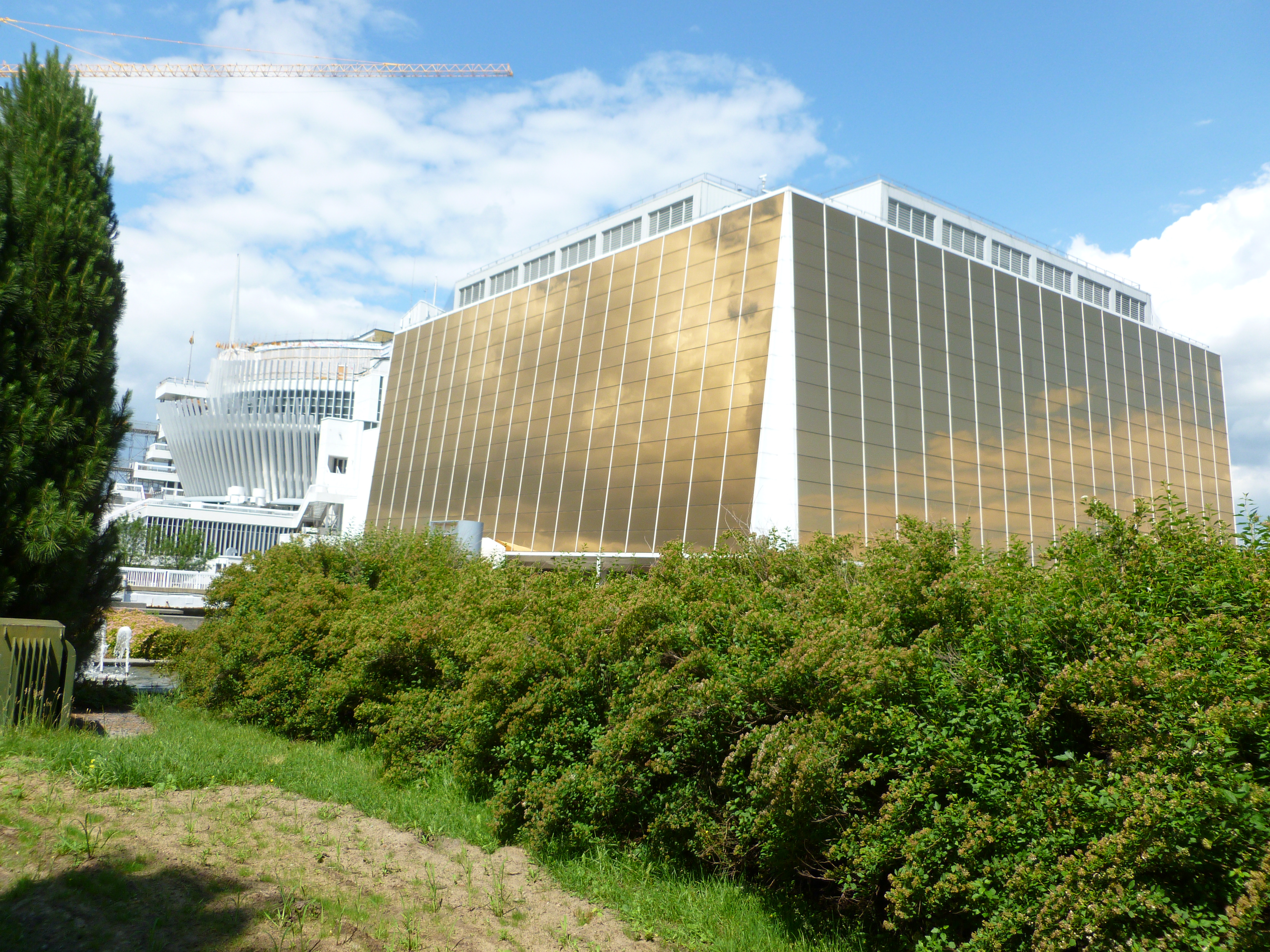 Casino de Montréal, in the former France and Québec pavilions dating from Expo 1967. Notre-Dame Island, Montréal, Québec, Canada.